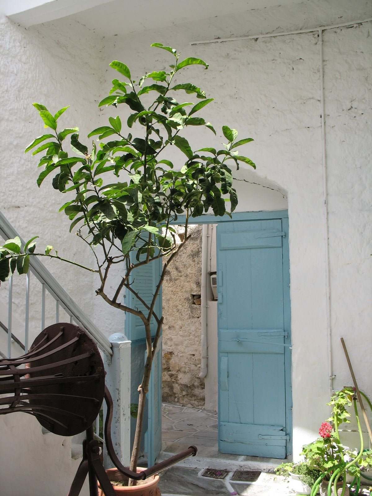 Citron